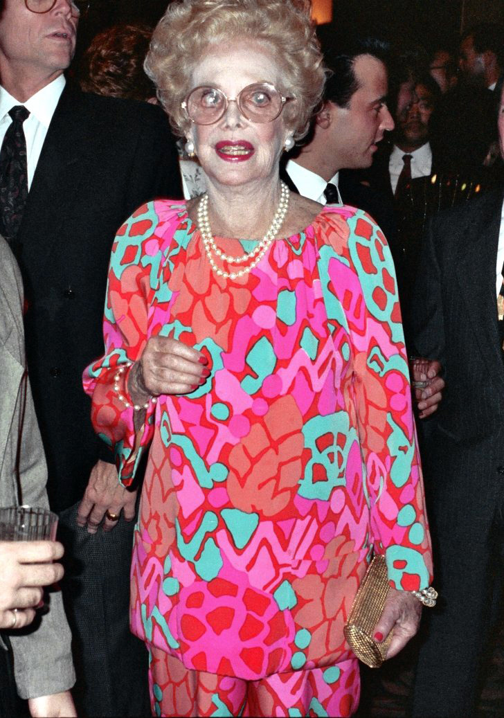 AIDS Project Los Angeles (APLA) benefit, Los Angeles- Sept. 1990- She played Mrs. Howell on Gilligan's Island - Permission granted to copy, publish or post but please credit "photo by Alan Light" if you can